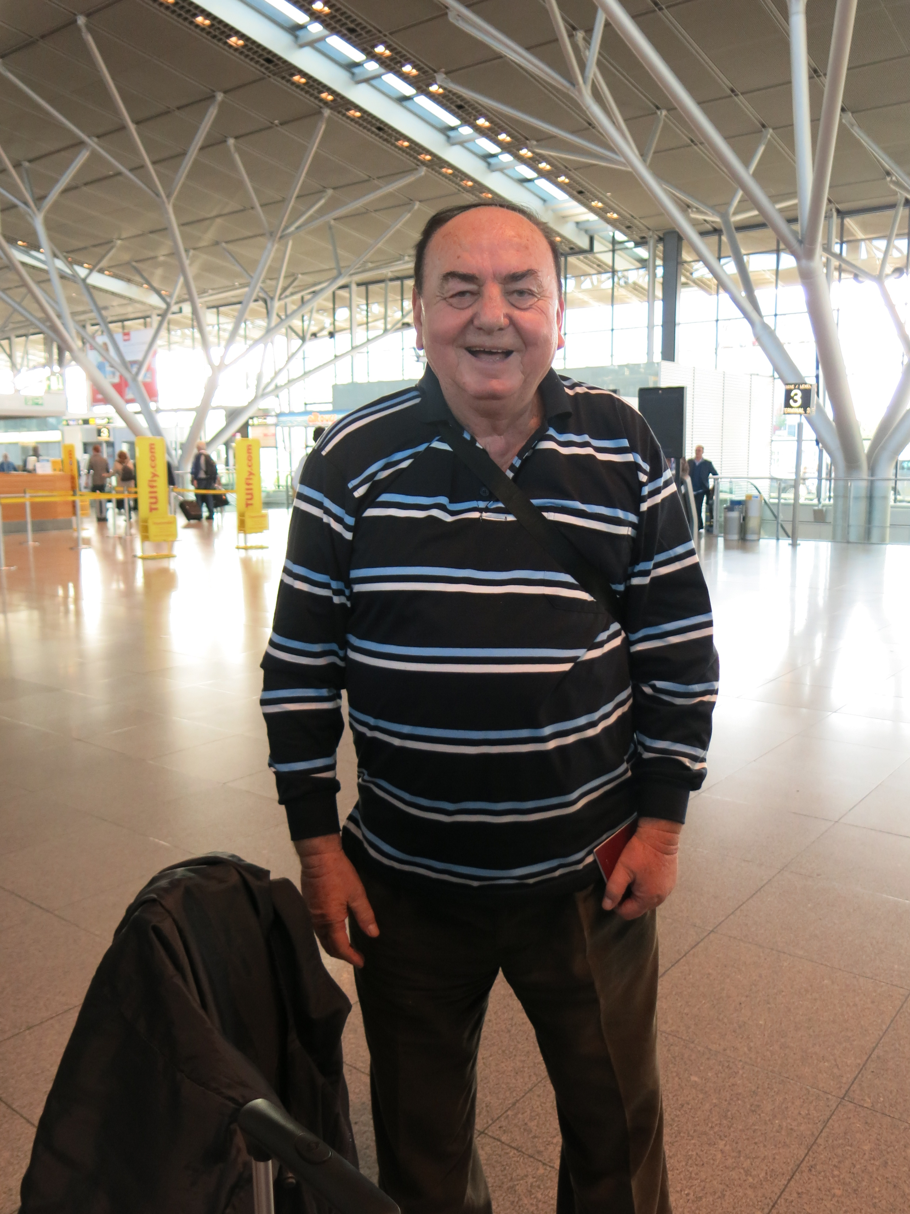 Bora Drljača at the Stuttgart Airport